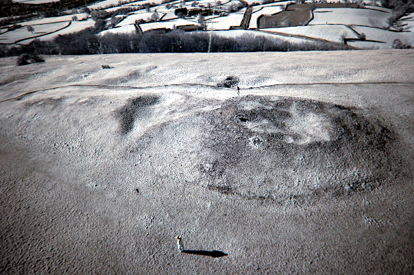 An oblique near infrared kite aerial photo of the long Barrow on Selsley Common, The Toots, in Gloucestershire (looking northwards, 720nm filter). Taken in bright sunlight for shadow relief.